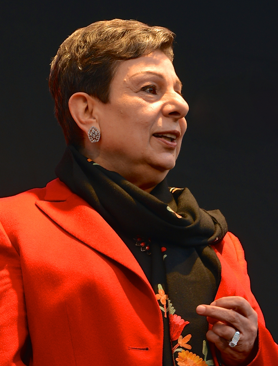 Hanan Ashrawi in memory concert in the Royal Garden in Stockholm on the 10th anniversary of the murder of Anna Lindh. September 11, 2013.